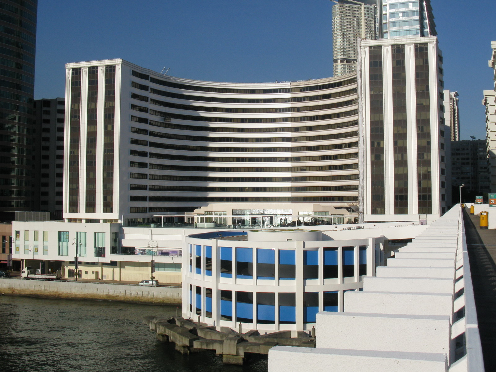 Ocean Centre, Harbour City